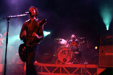 Jet live in concert. Nic Cester at microphone, Chris Cester on drums.cw.jet.001